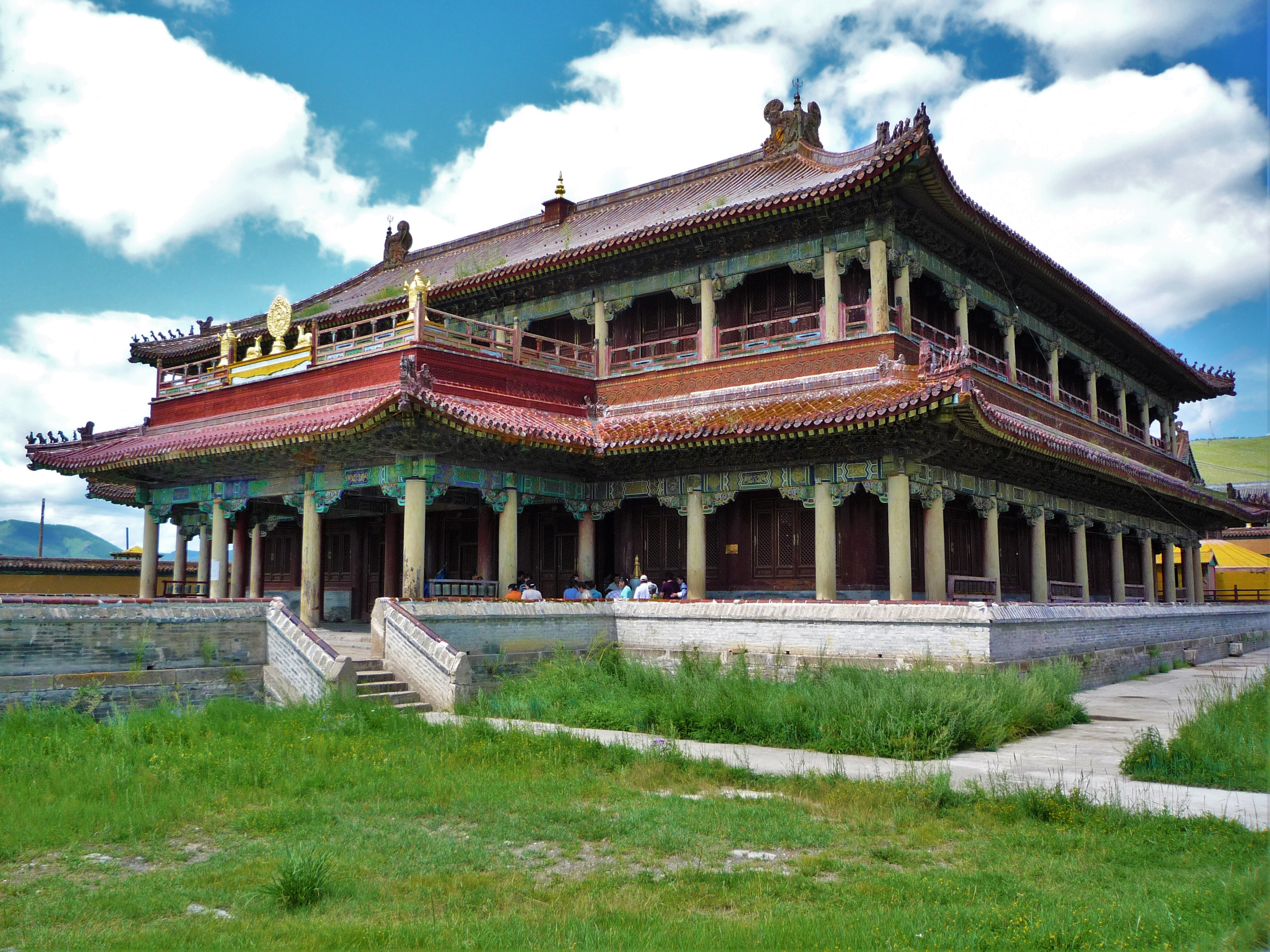 Amarbayasgalant monastery temple, Selenge aimag, Mongolia